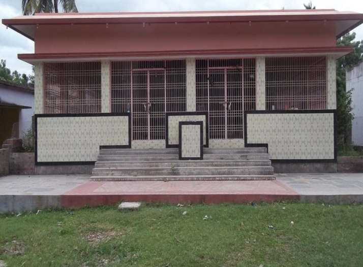 Temple constructed by Meka's in 2010